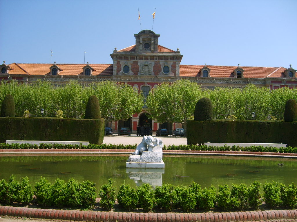 Parliament of Catalunya in the Park of the Ciutadella